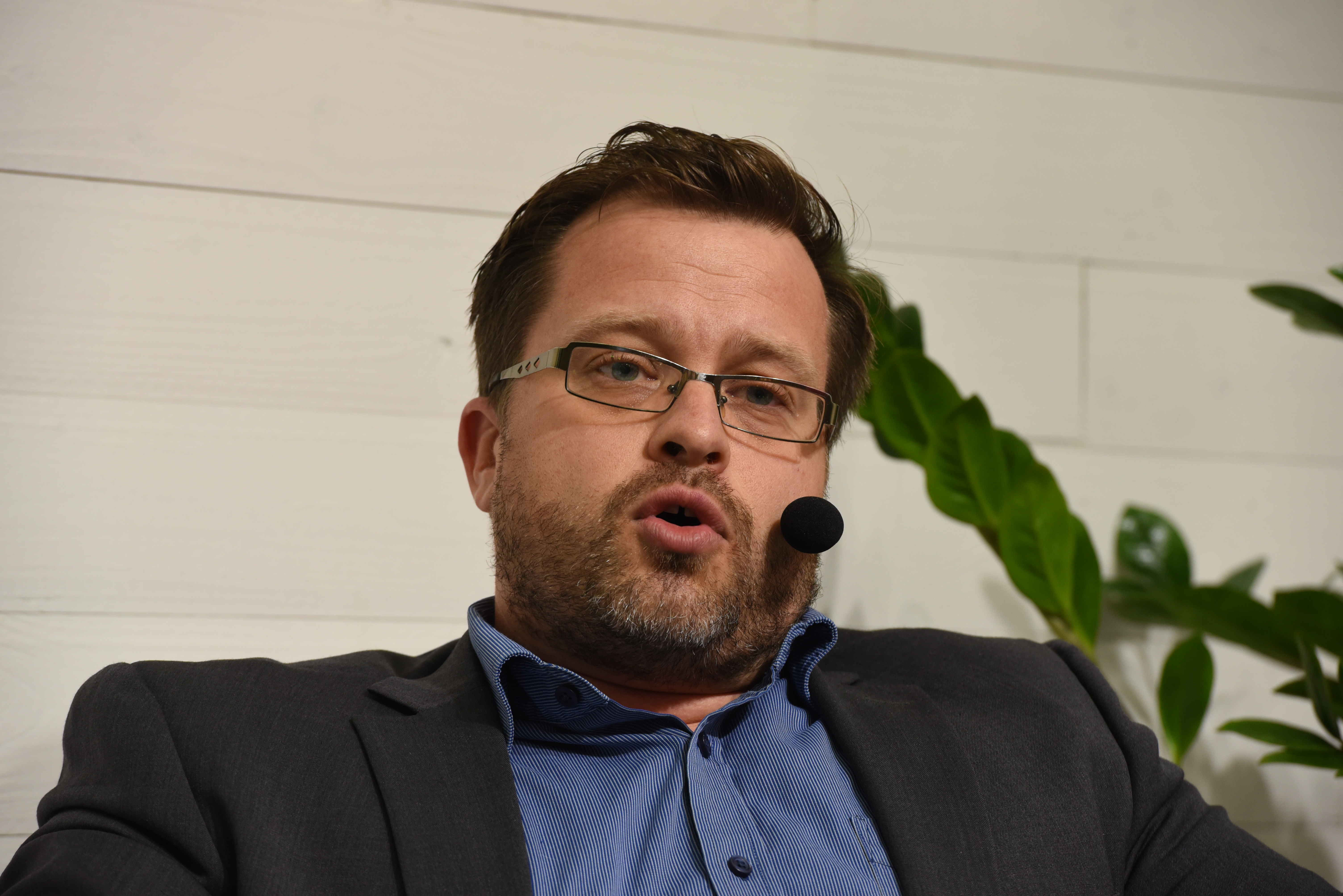 The Swedish writer Tony Johansson at Göteborg Book Fair 2018.